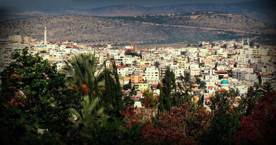 Cities in Israel